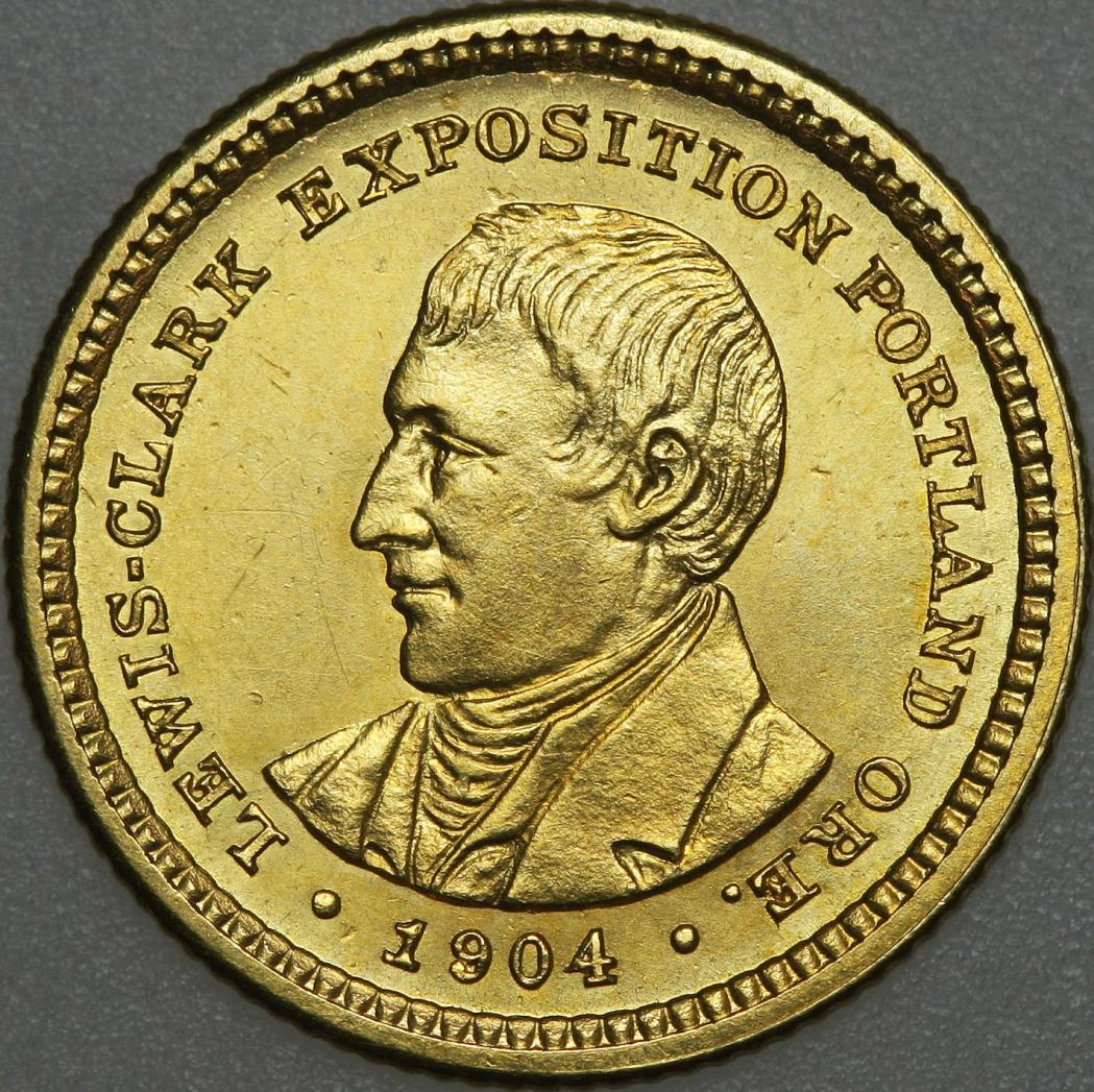 Obverse of a 1904 Lewis and Clark gold dollar. Meriwether Lewis depicted on obverse, William Clark on reverse